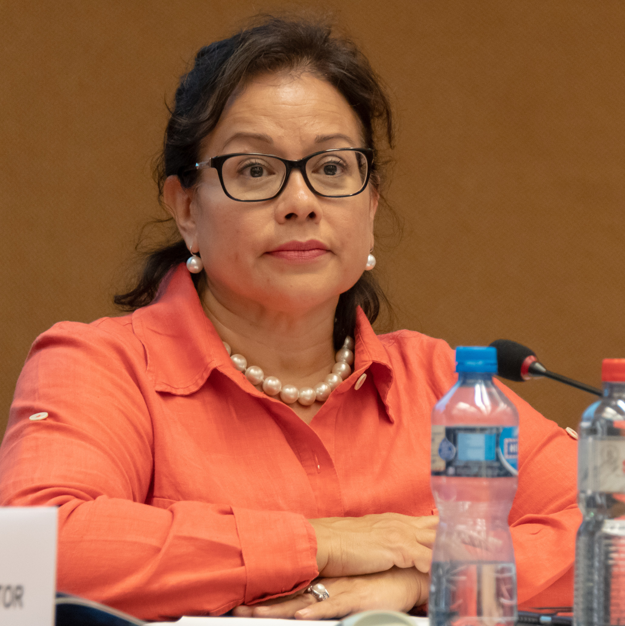 Session 3: Making marine based value chains sustainable in developing countries. Ms. Monica Maldonado, CEO, CEIPA, Ecuador The Indian Ocean experience in improving the conservation of marine resources and expansion of seafood value chains.